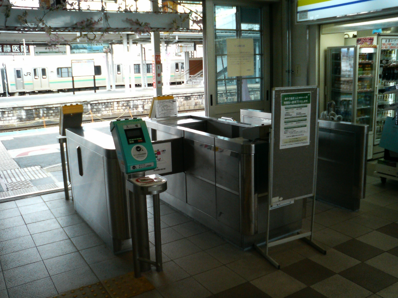 Gate of JR East Yonezawa Station.